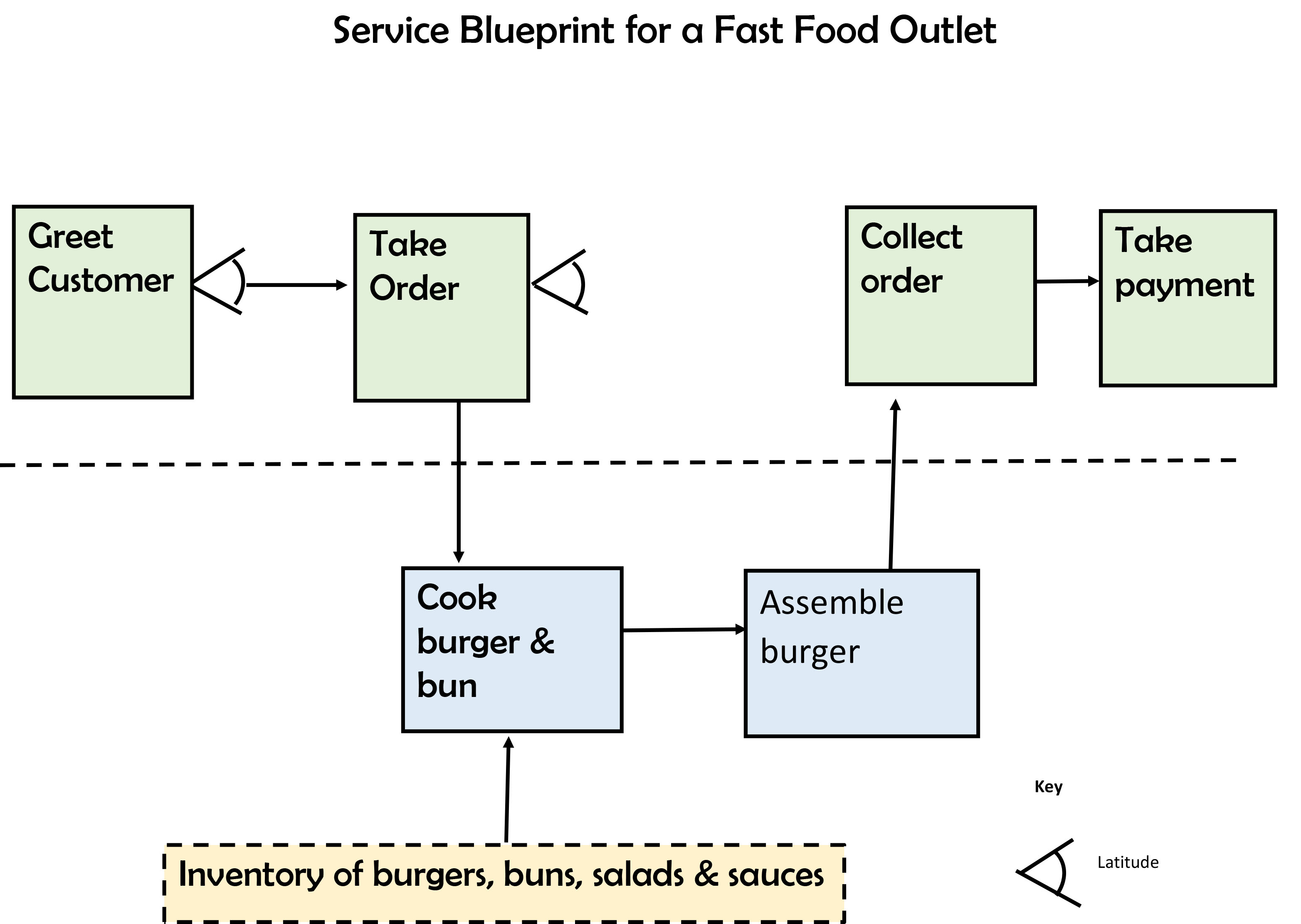 Applied service blueprint, in JPEG format, to replace PDF previously submitted; service blueprint for hypothetical fast food outlet; totally own work